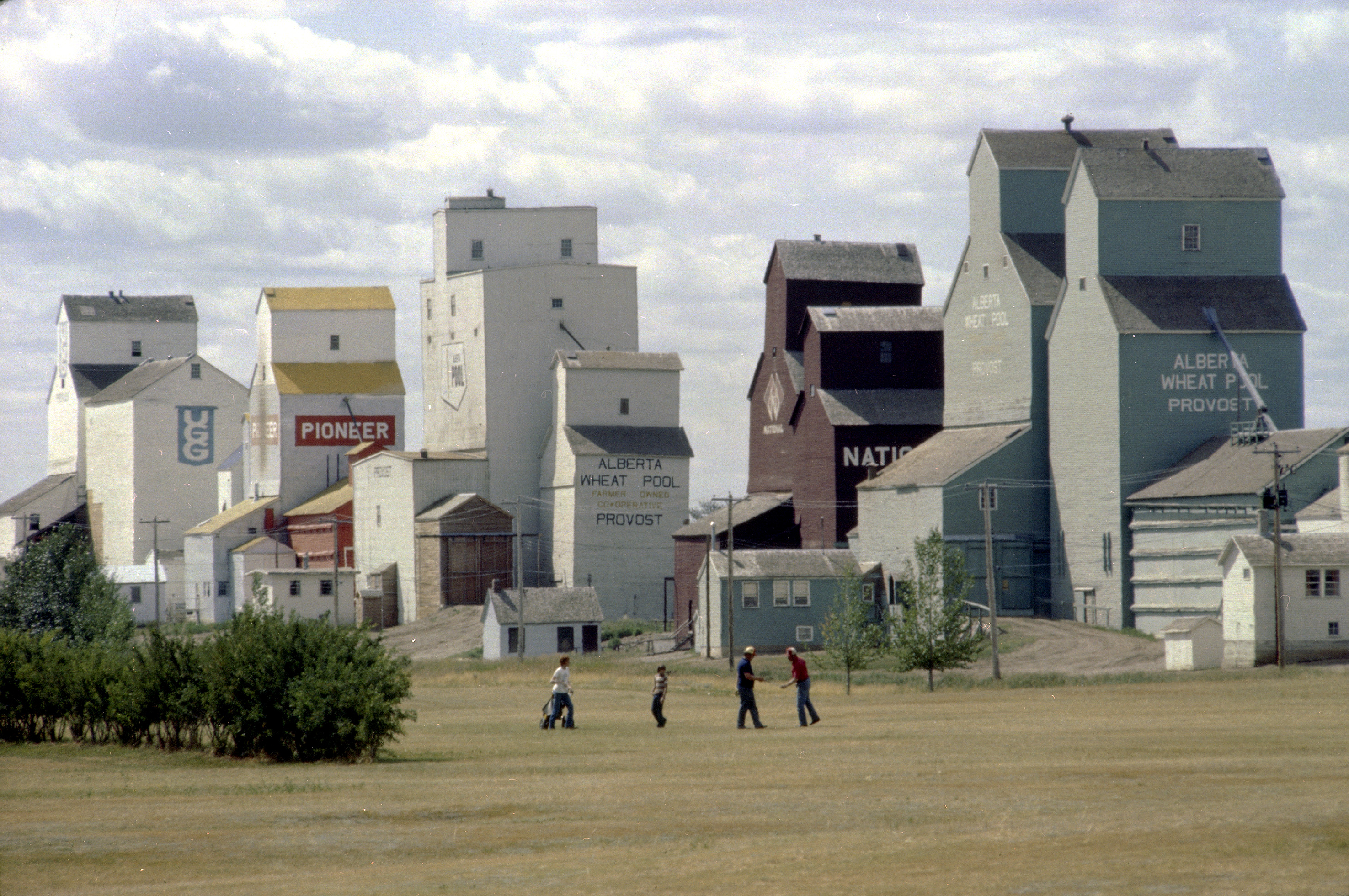 United Grain Growers, Pioneer, Alberta Wheat Pool, and National grain elevators in Provost, Alberta.